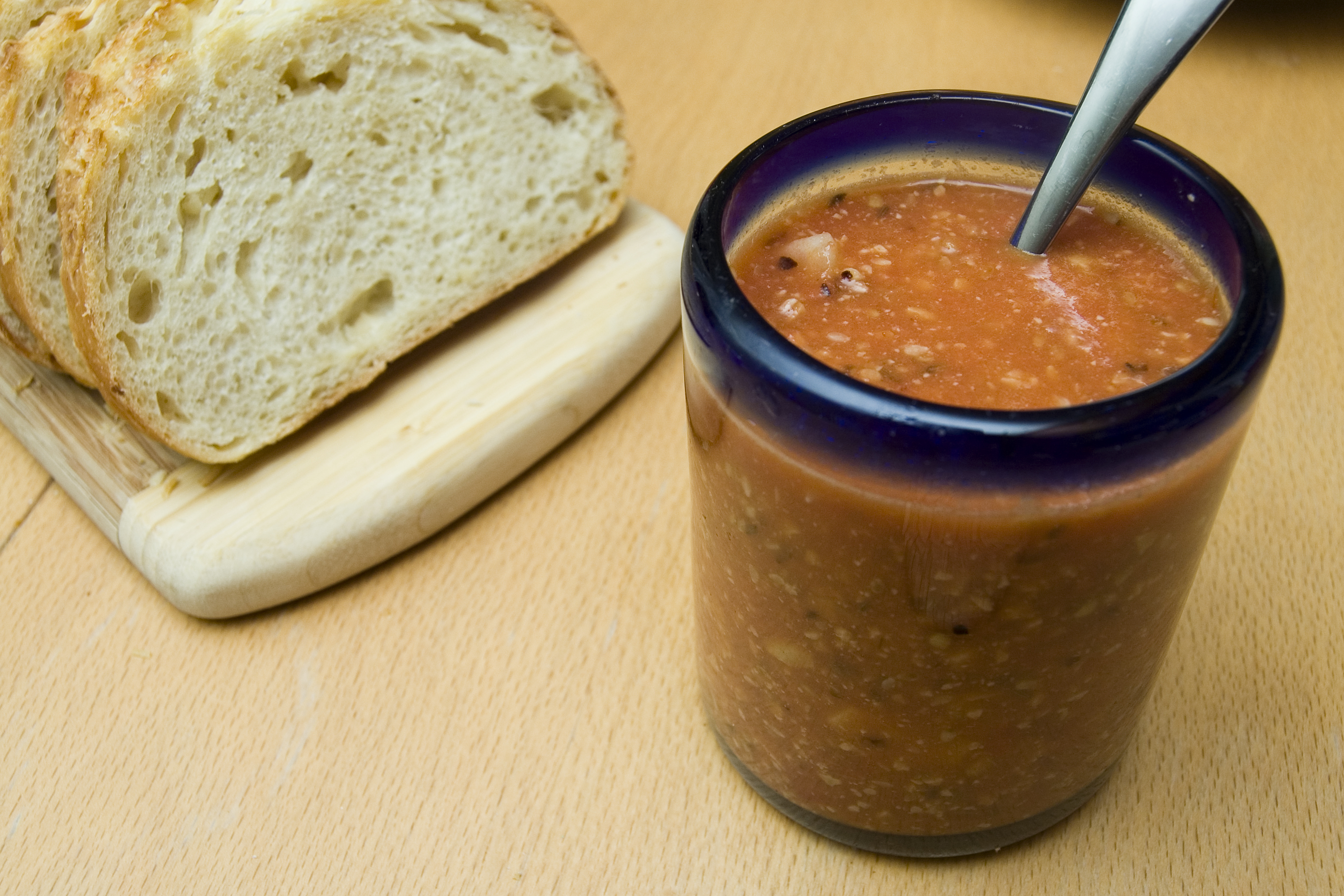 Simple tomato chutney. We also had some goat cheese with this.